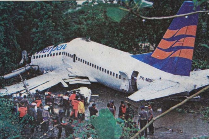 Merpati Boeing 737 crash in Manokwari